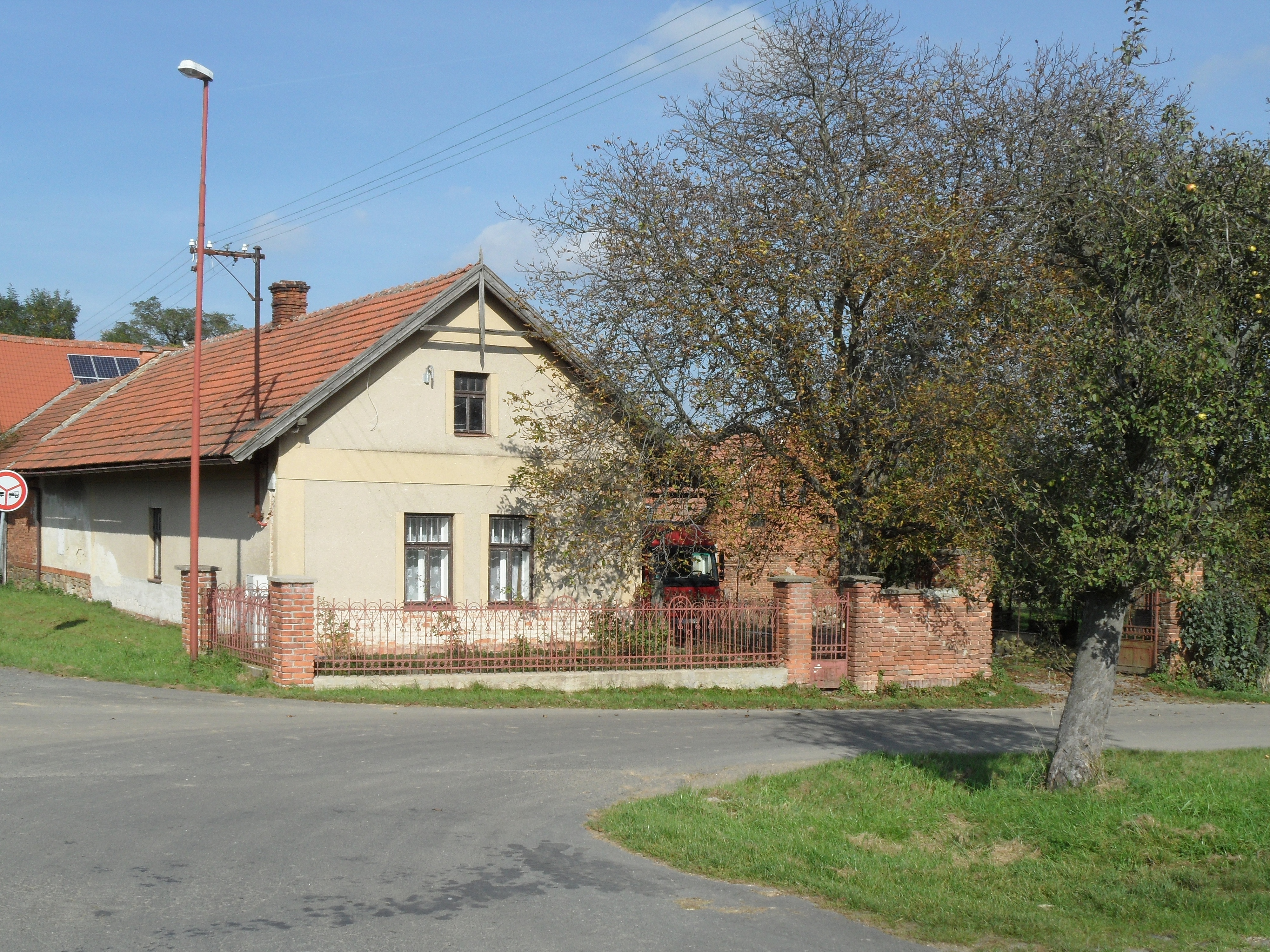 Bláto_(Uhlířské_Janovice) A. House near Crossroads, Kutná Hora District, the Czech Republic.